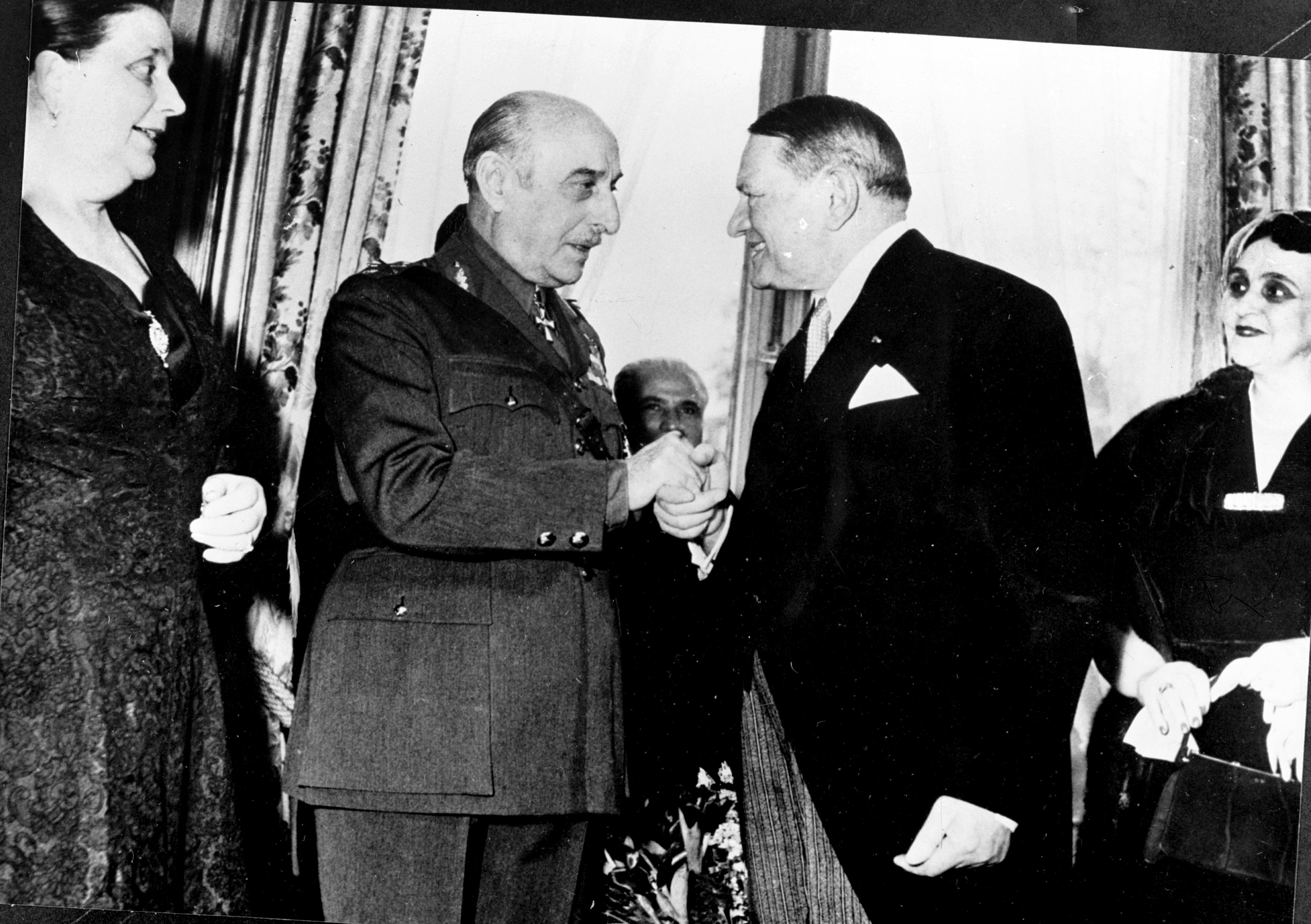 The Prime Minister of Greece, Field Marshal Alexandros Papagos, with Rene Coty, newly elected as President of France